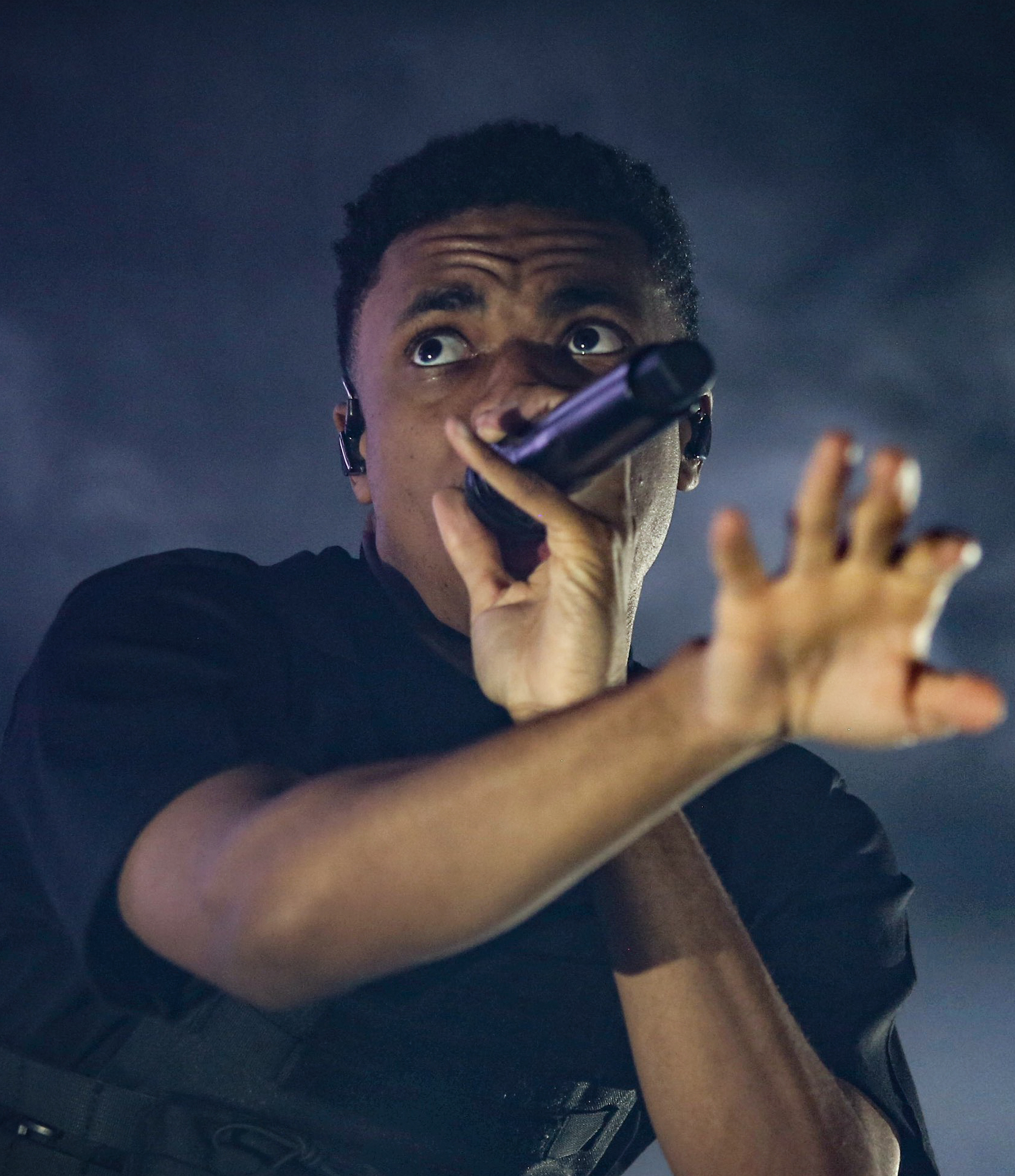 Vince Staples - First Avenue - Minneapolis